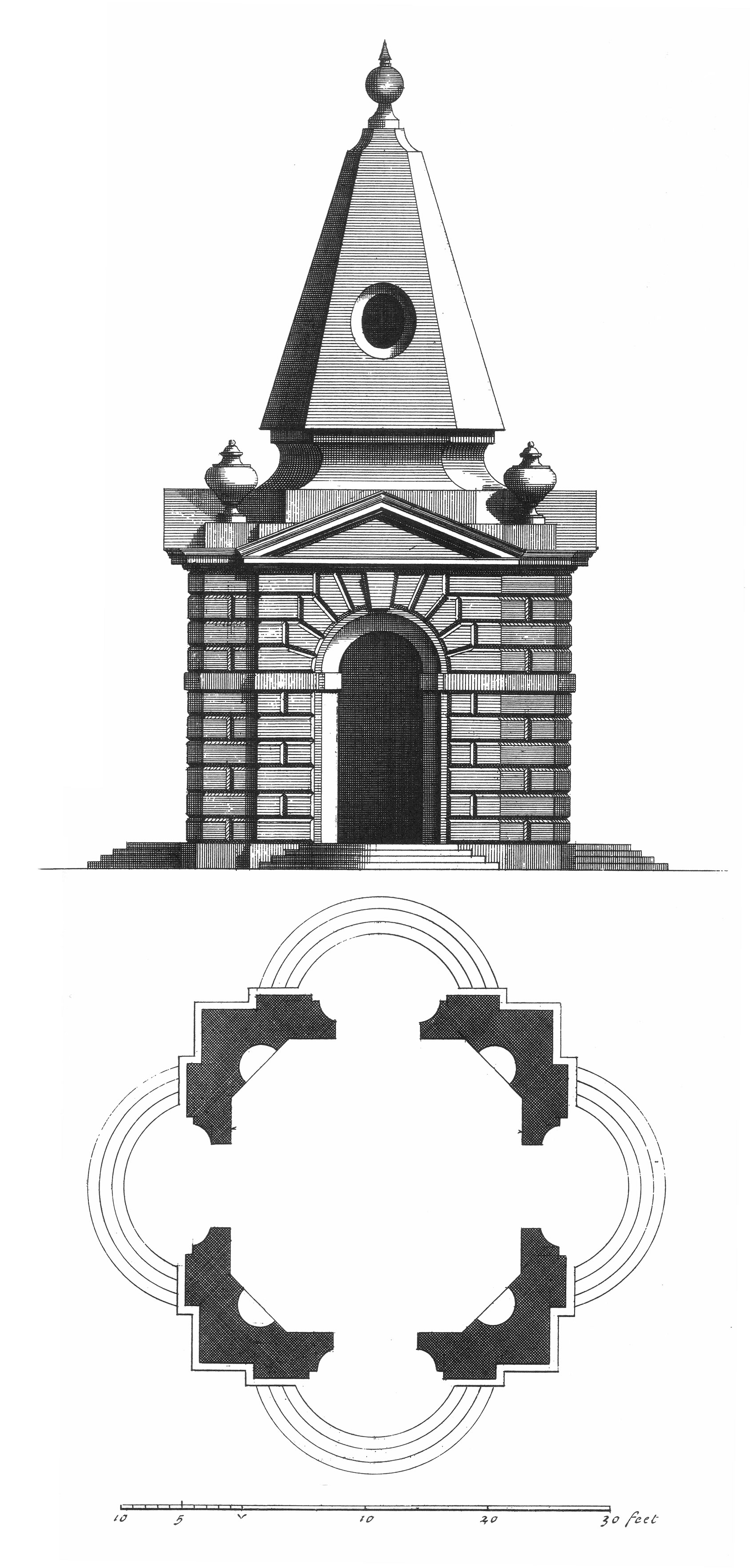 Plate LXXVI. Another Design for two pavillions at Stow; both built of Stone in the same form without, but within is an Octagon Room of 24 feet, the other is divided into Rooms, and made a Dwelling for a Gentleman. (this is the plate description in Gibbs book published in 1728.)